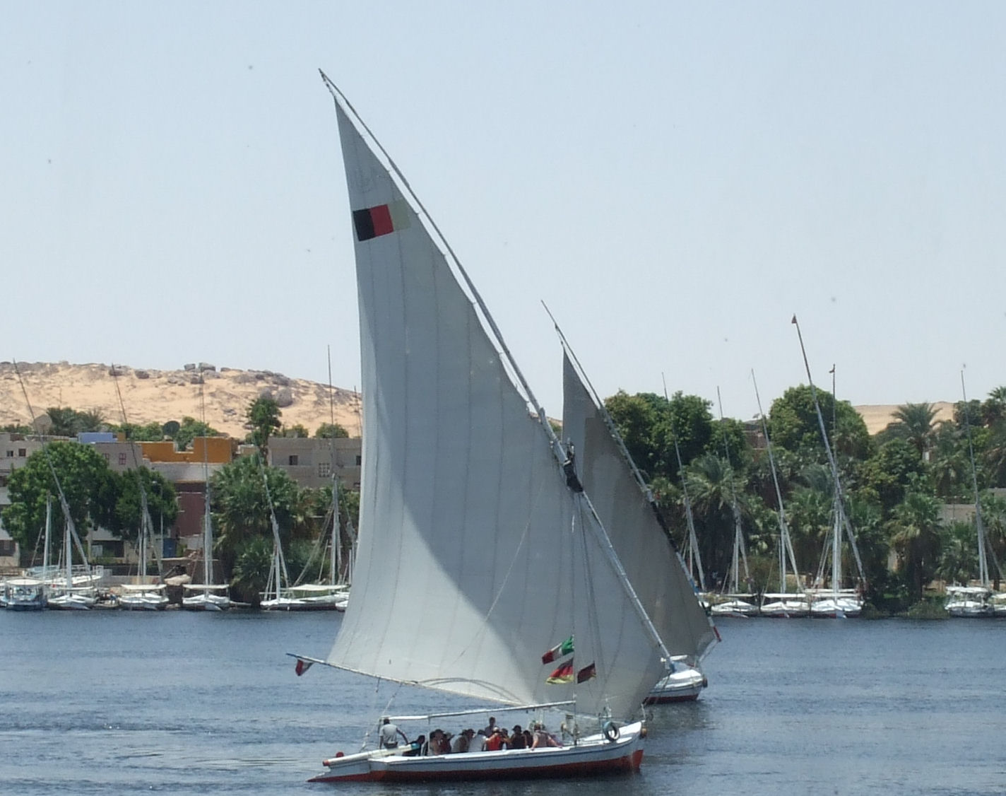 Falucca,Aswan Egypt